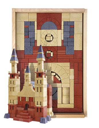 Anchor stone block set No. 10A